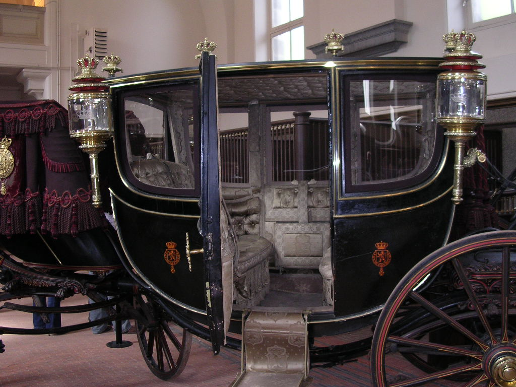 Carriage at the Royal Palace of Laeken in Brussels, Belgium